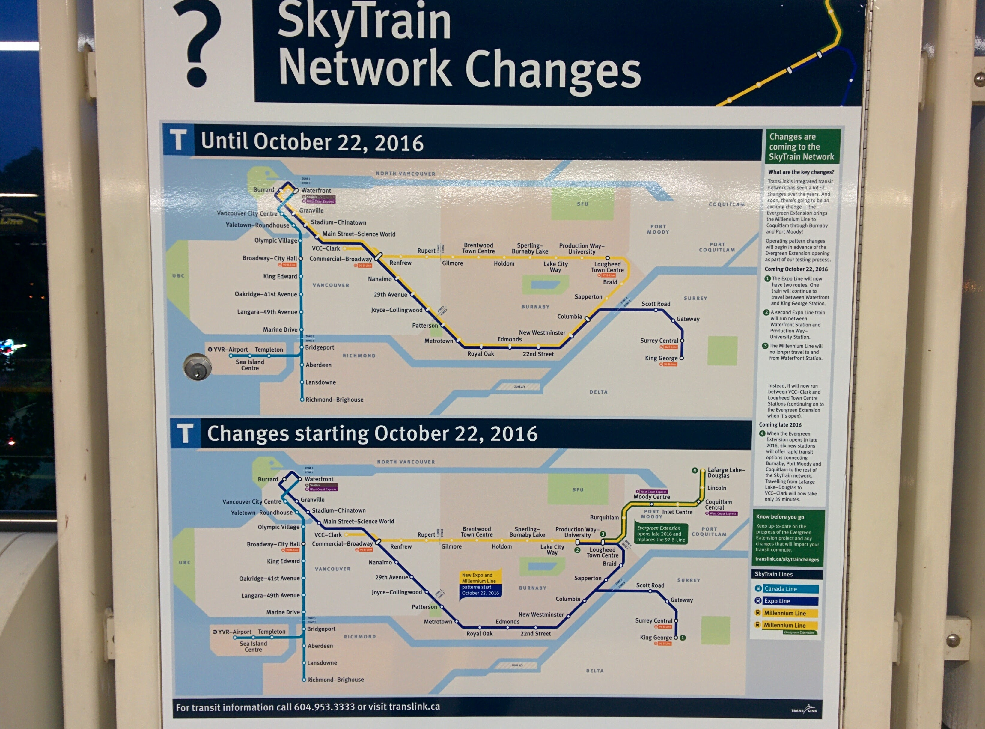 Route info map at Sperling-Burnaby Lake SkyTrain station. The Map has information on the upcoming network change for Expo and Millennium lines on October 22, 2016. It also indicates that Evergreen extension will be in service late 2016.